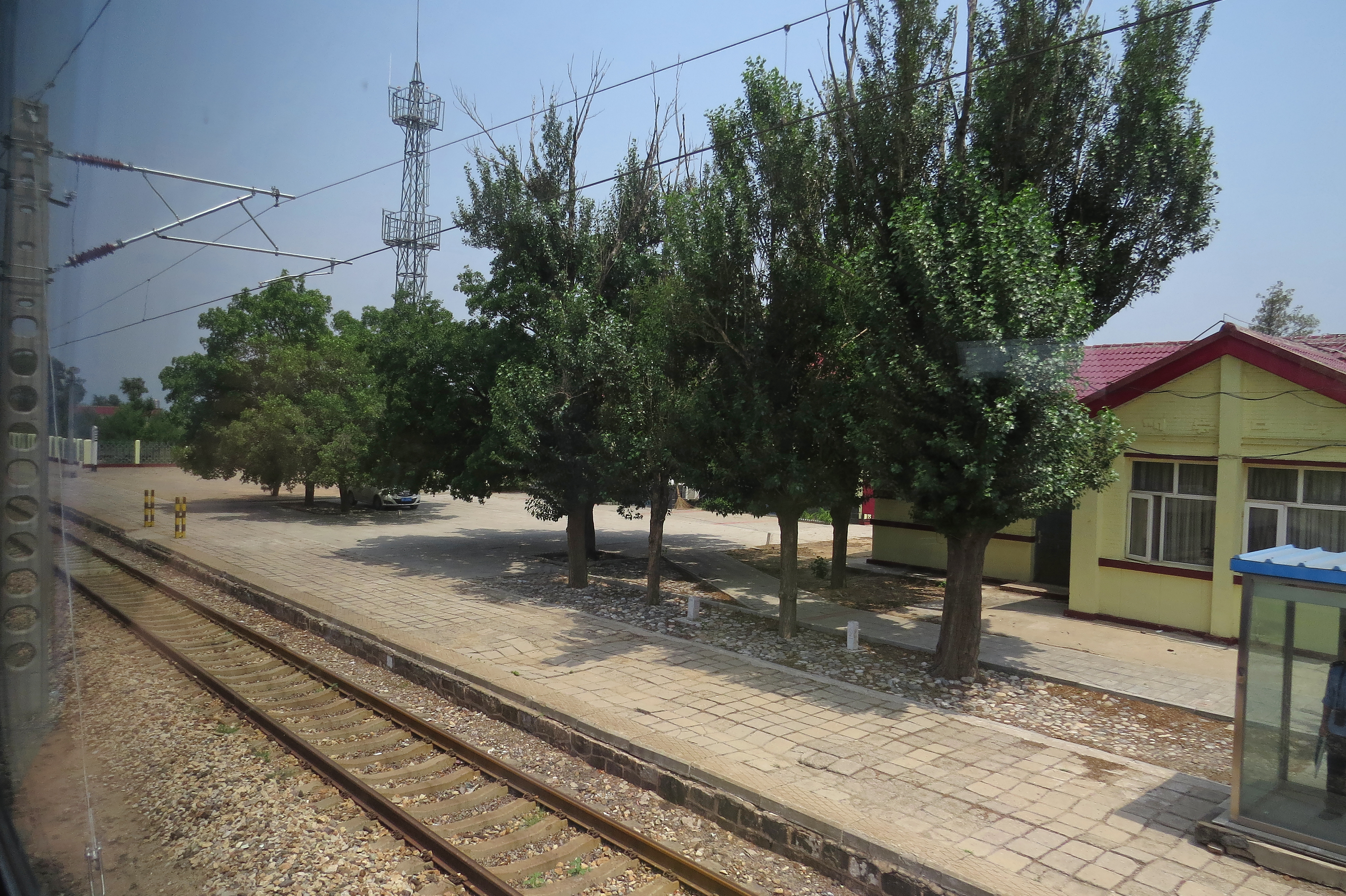 First station after Shacheng.